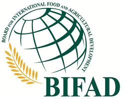 BIFAD logo